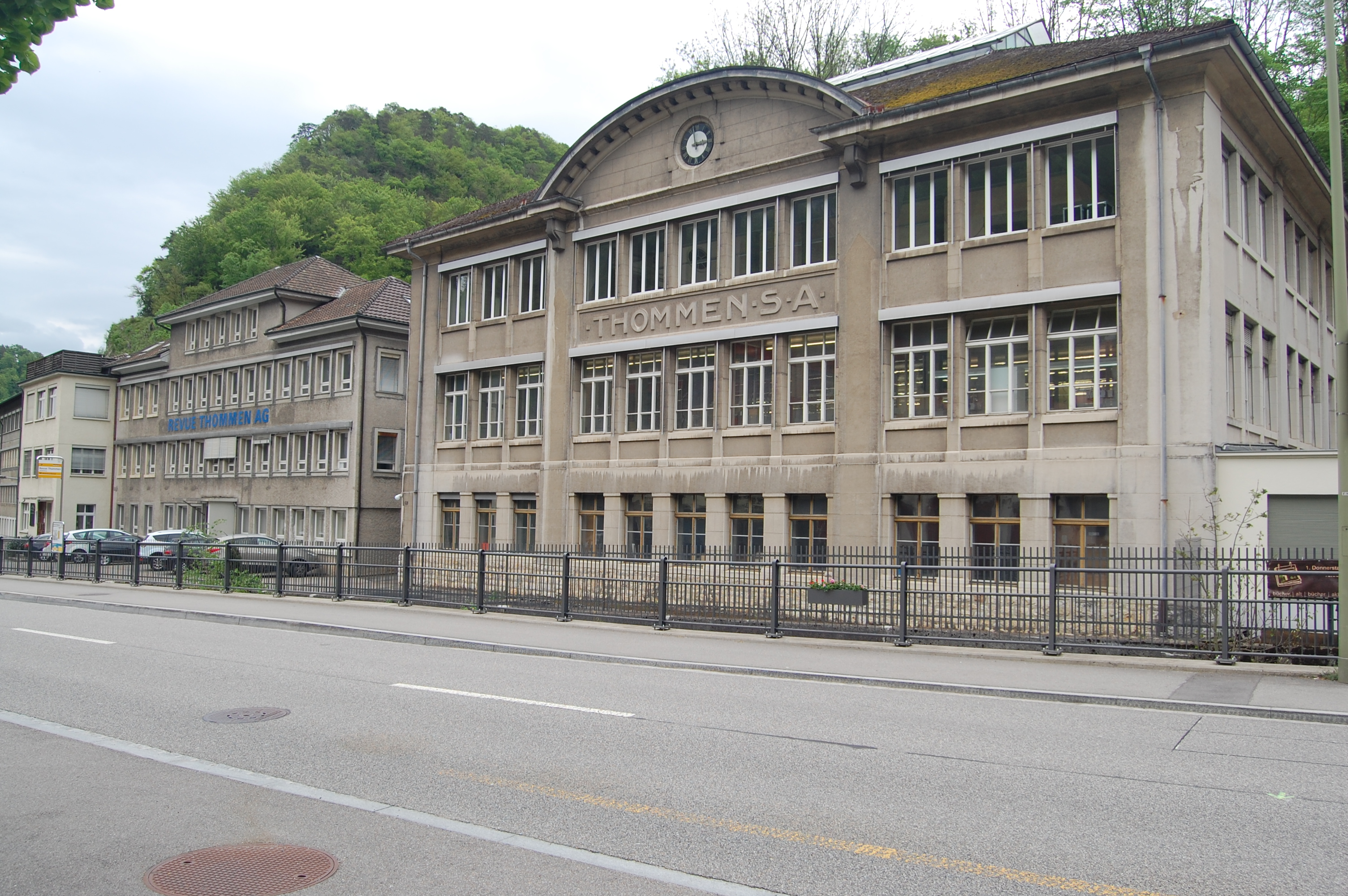 Revue Thommen AG, headquartered in Waldenburg, Switzerland